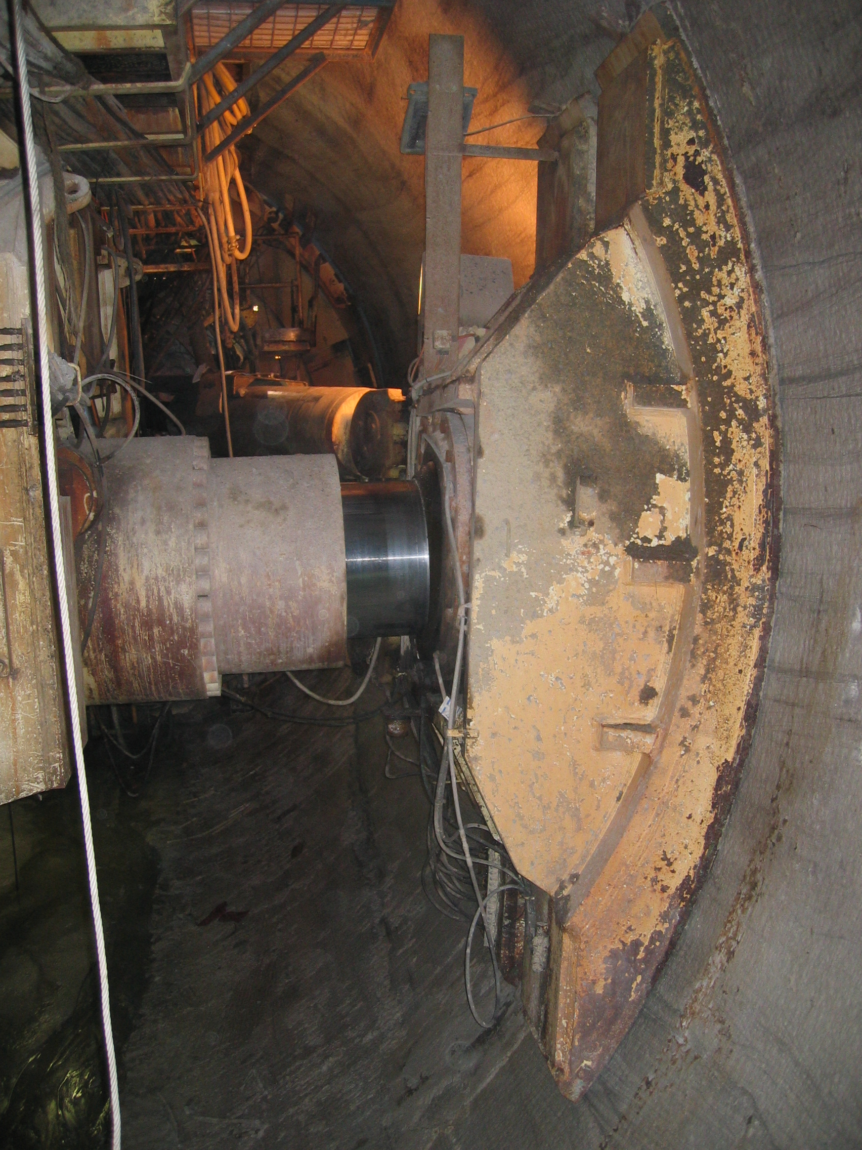 Taken by R.A.Rainton 15 Feb 2005. Hydraulic jacks holding a TBM in place. This particular TBM was cutting the Epping to Chatswood rail line.